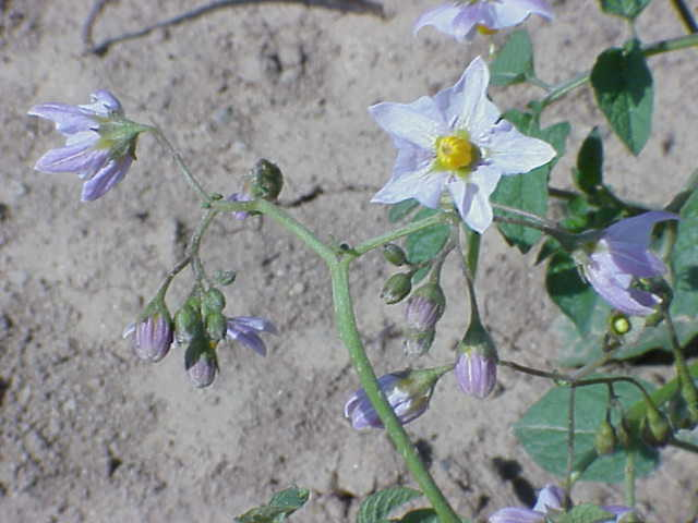 Species: Solanum gourlayi Family: Solanaceae Image No. 2